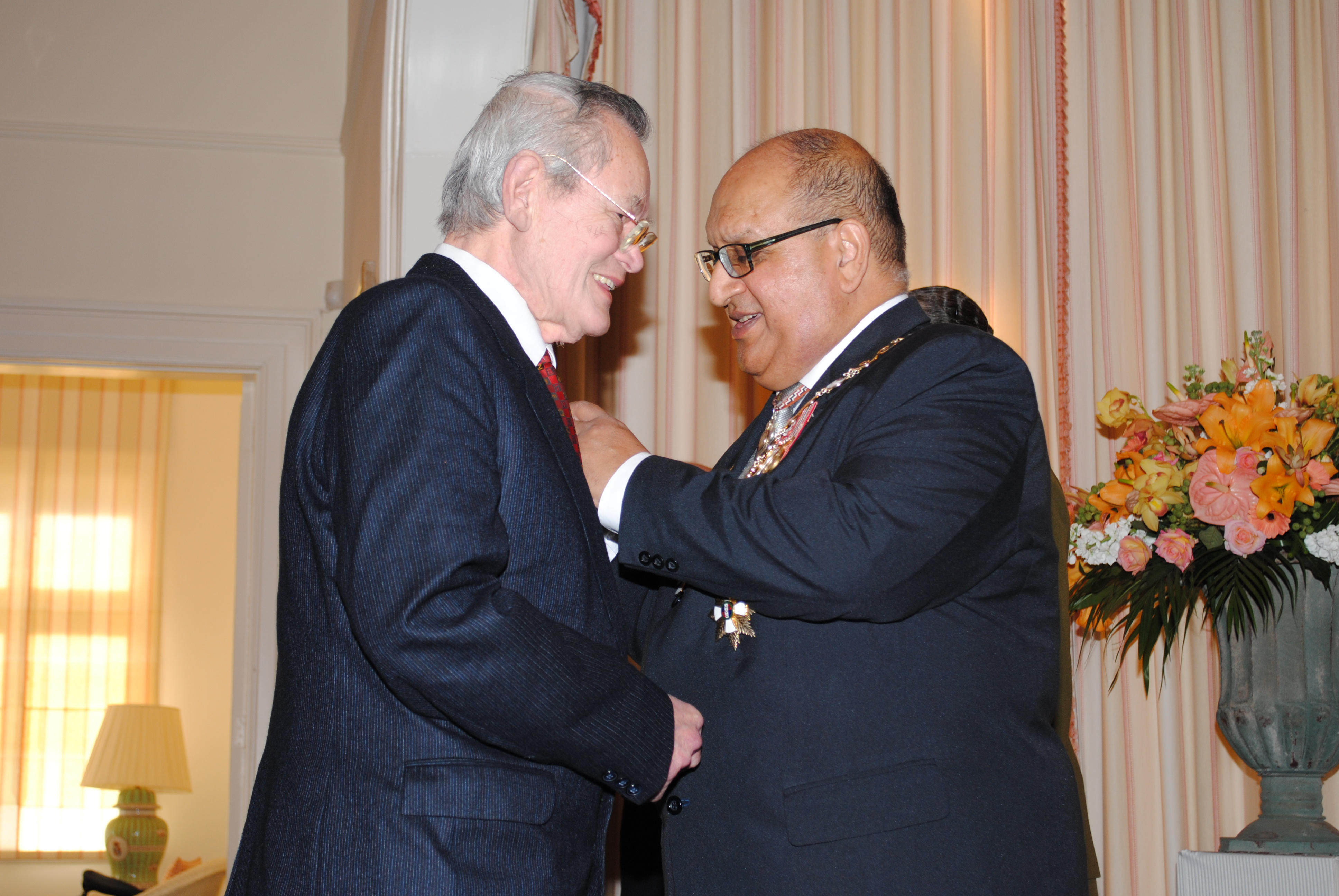 Joseph Churchward (left), being presented with the Queen's Service Medal, for services to typography, by the governor-general, Sir Anand Satyanand, at Premier House, Wellington, on 8 September 2010.